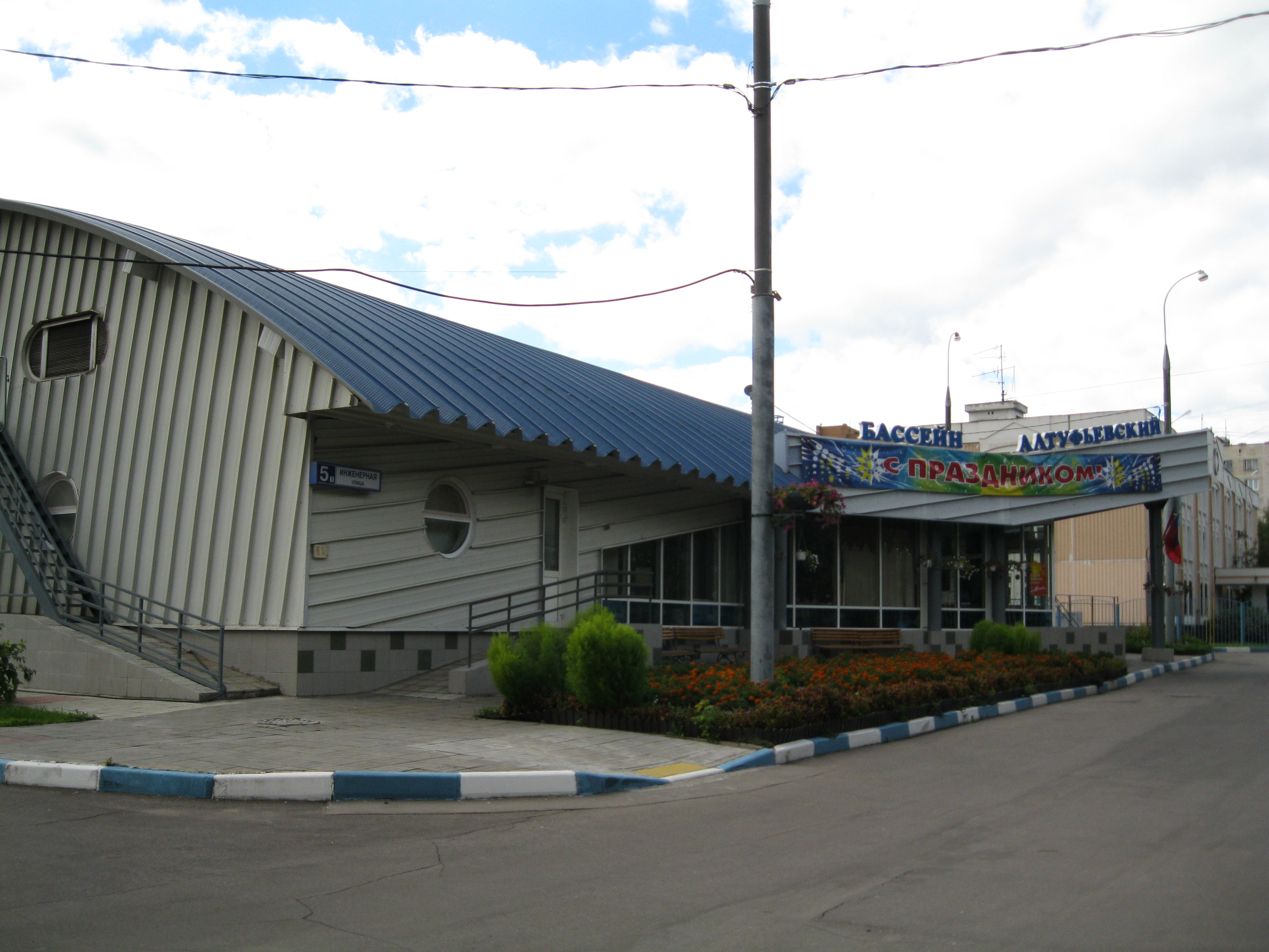 Altufyevsky swimming pool in Moscow, Russia